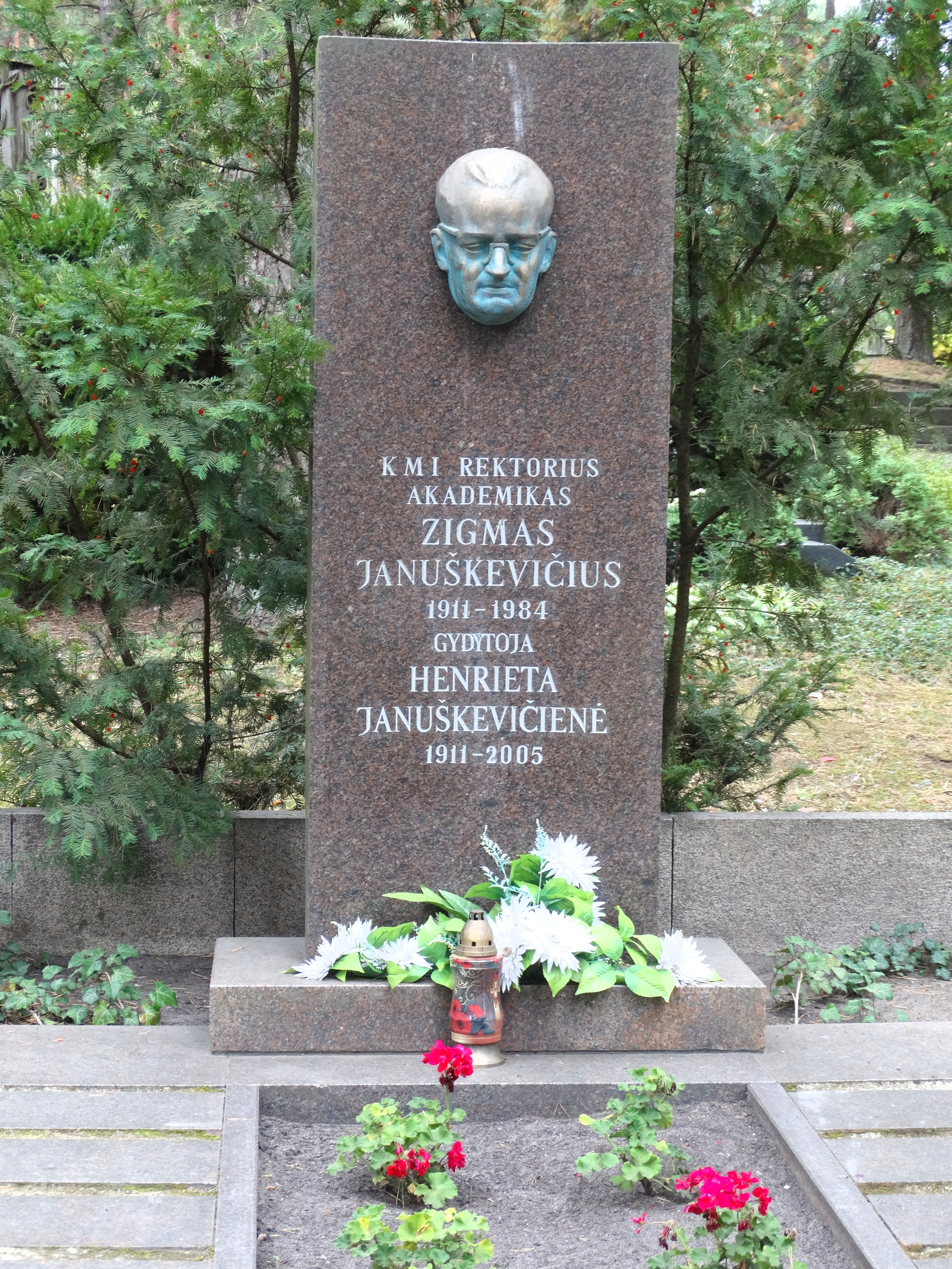 Tomb of Zigmas Januškevičius, Petrašiūnai, Lithuania